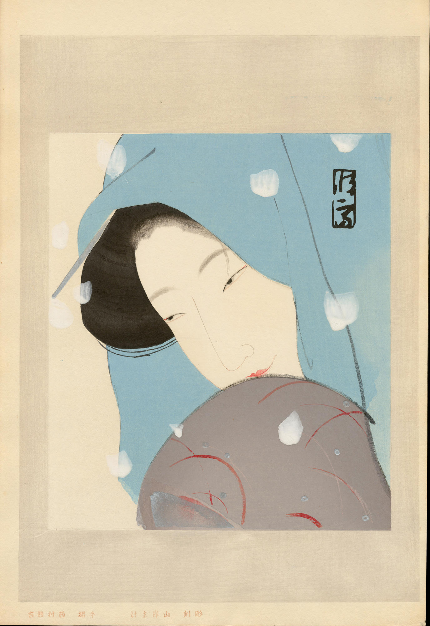 Umegawa from Chikamatsu Play "The Courier for Hell (Meido no hikyaku)", woodblock print